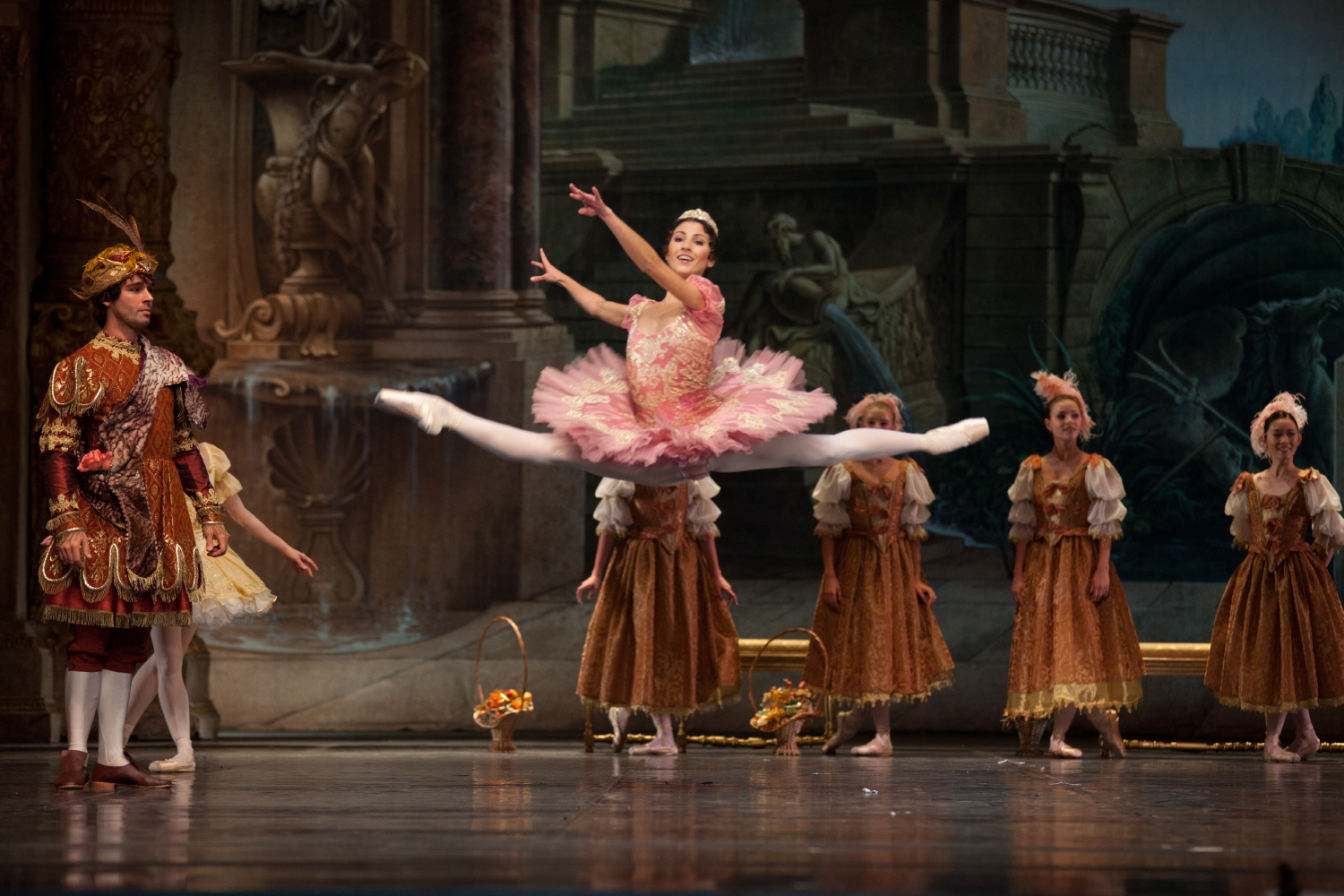 "The Sleeping Beauty" by Yury Grigorovich after Marius Petipa, Polish National Ballet, Maria Żuk as Princess Aurora